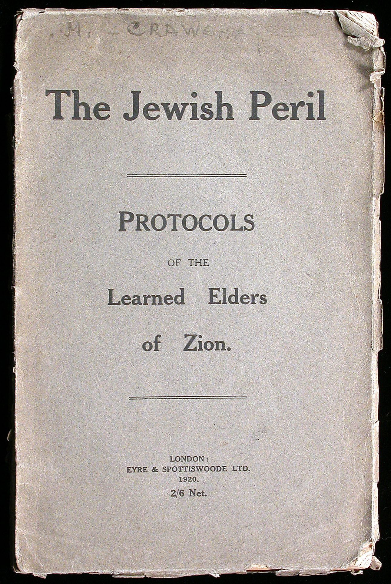 1920 - Book cover - The Jewish Peril/Protocols of Zion - 1st Edition - United Kingdom/British imprint - Eyre & Spottiswoode Ltd. published it "privately."